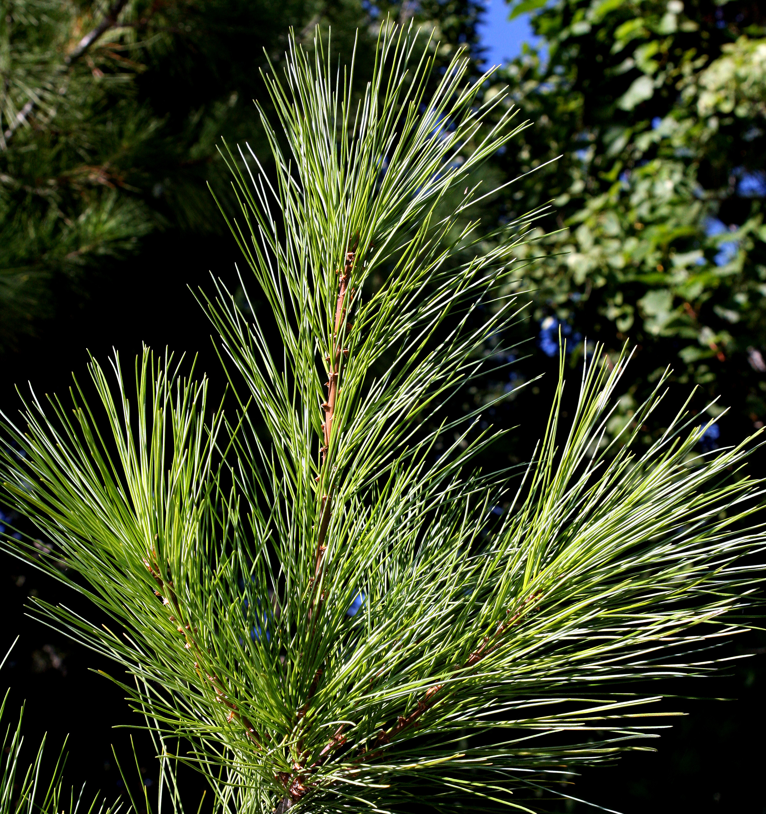 Pinus strobus needles, taken 2009, late summer. self made image by Hardyplants.